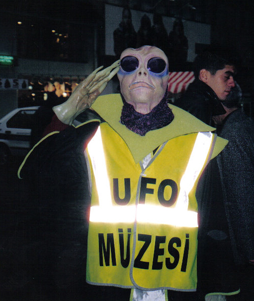 The Istanbul UFO museum uses a man costumed as the stereotypical image of a grey for some imaginative street advertising. (C) Gerry Lynch, 2003.